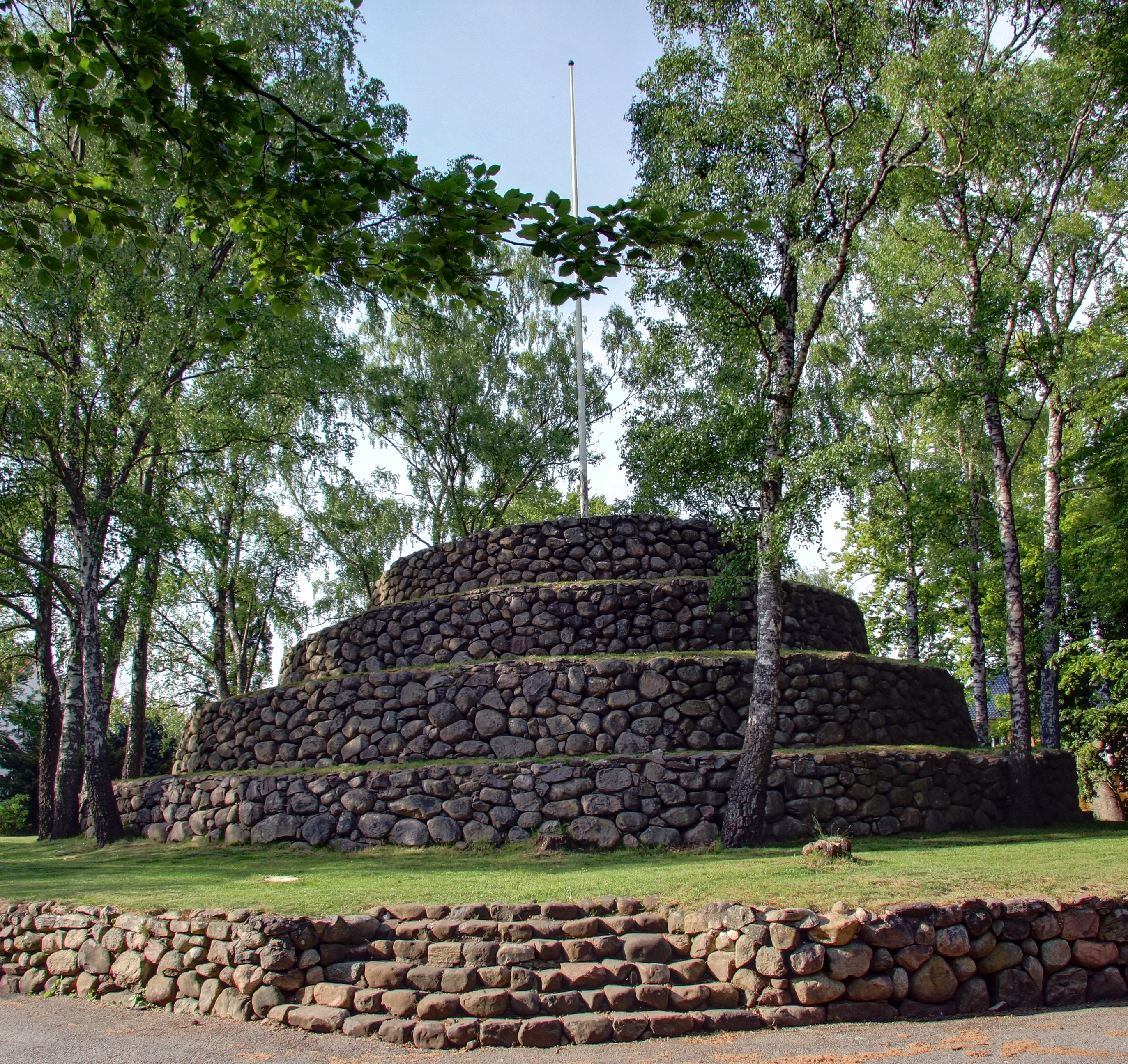 Stenberget in Eslöv, Sweden